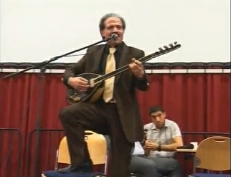 Rashid Moussa at a concert